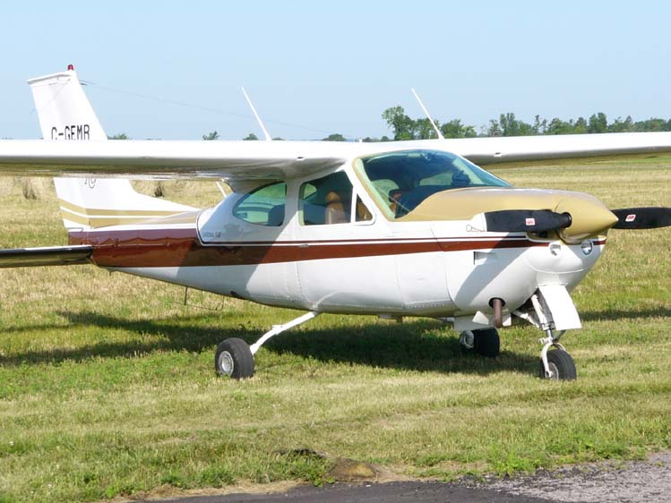 Cessna 177RG Cardinal RG at the COPA Flight 33 Arnprior, Ontario Fly-in 10 July 2005